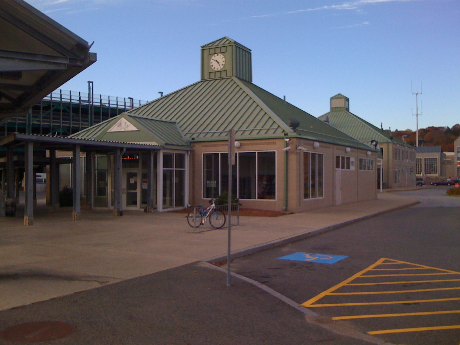 MBTA Fitchburg Station